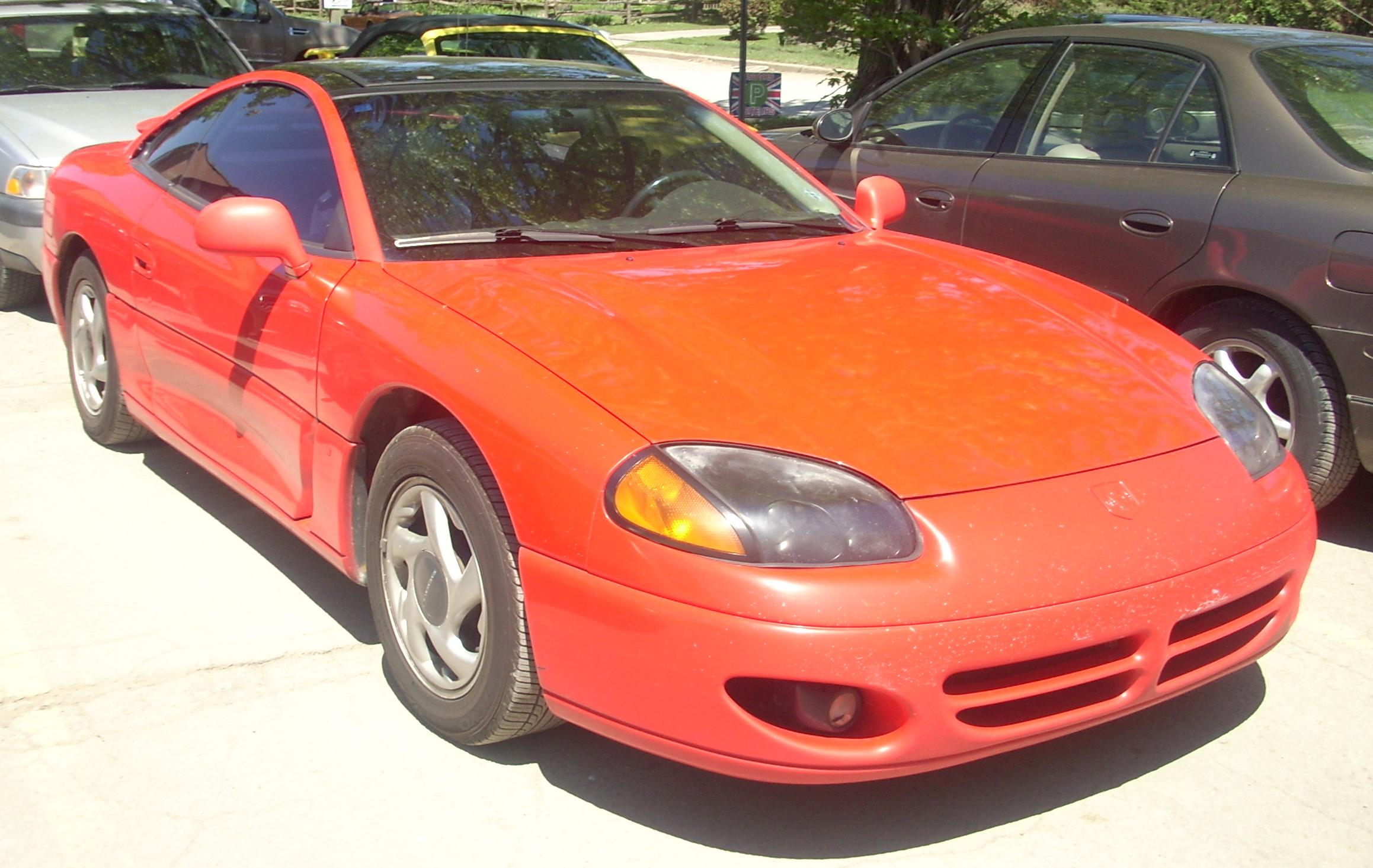 1994-1996 Dodge Stealth photographed at the 2008 Hudson British Car Show